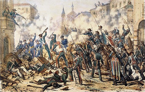 lucha urbana